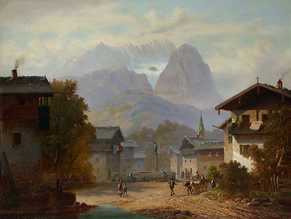 Anton Doll: Ansicht von Garmisch Oil on canvas Dimensions: 58 x 75.5 cm